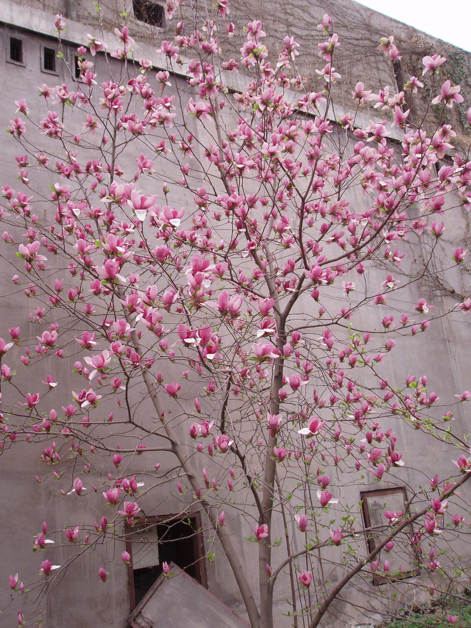 Magnolia liliiflora flowers